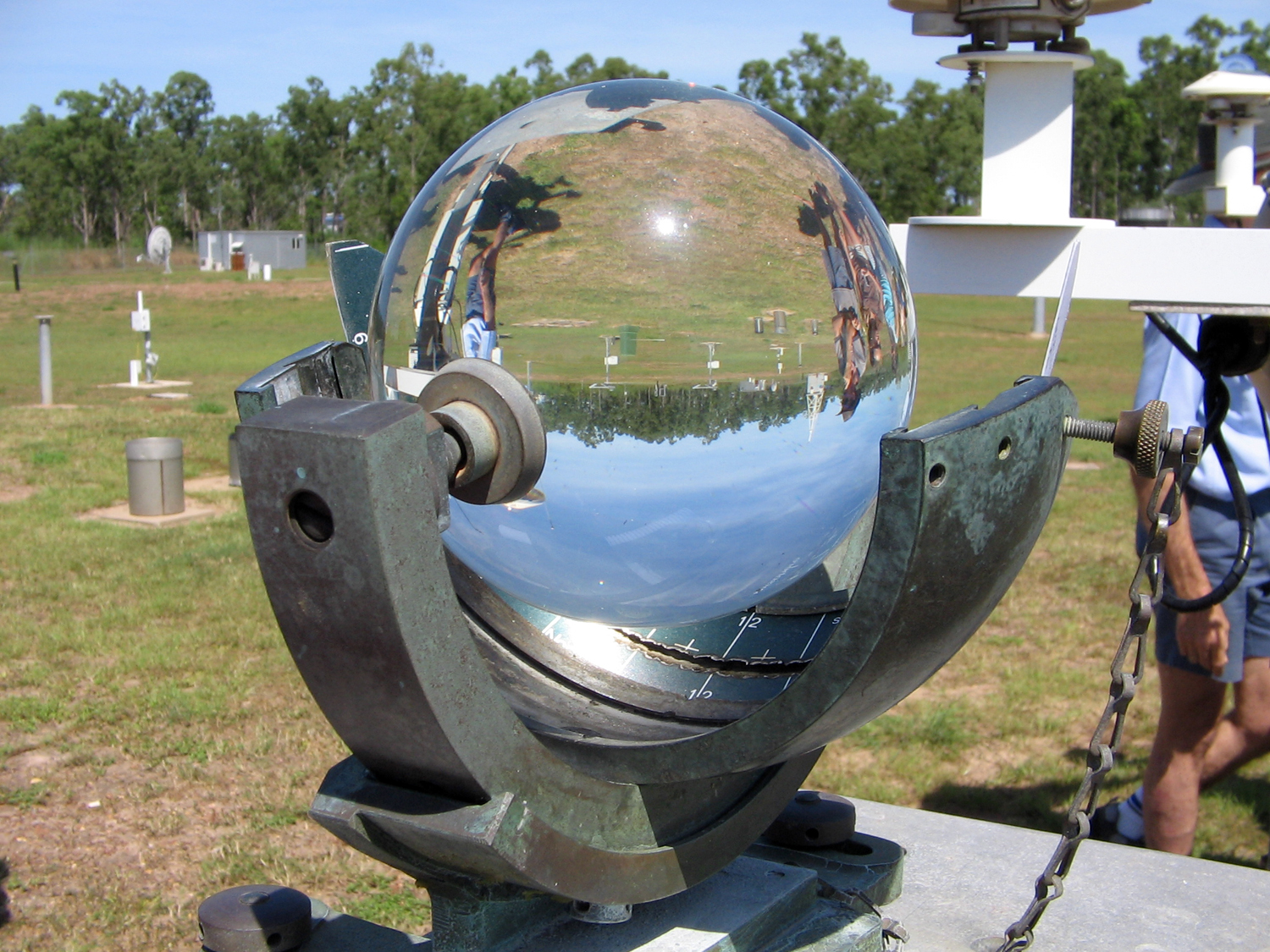 Bureau of Meteorology Campbell-Stokes recorder (Darwin Airport Met Office)